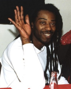 Leo Williams of Big Audio Dynamite Backstage at The Galleria, San Francisco, California, USA